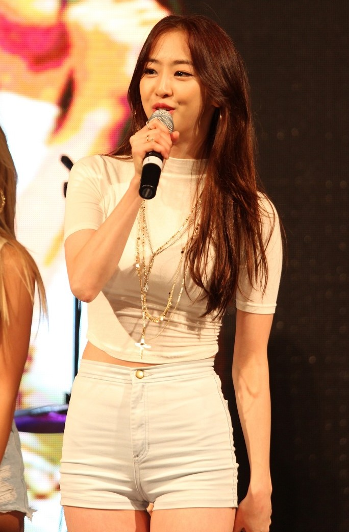 Dasom at Hanyang University Festival on September 24, 2014.